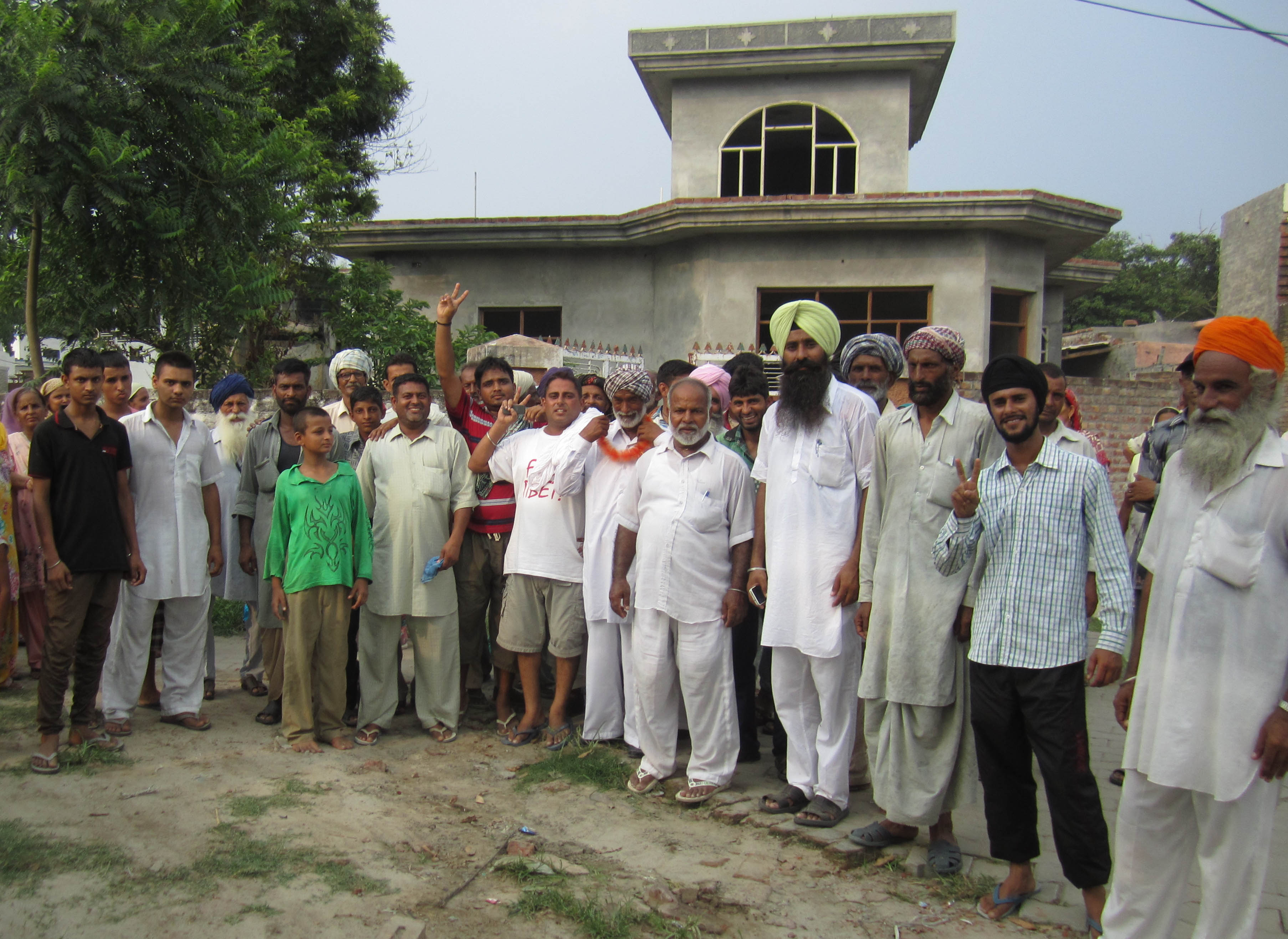 Election time pic